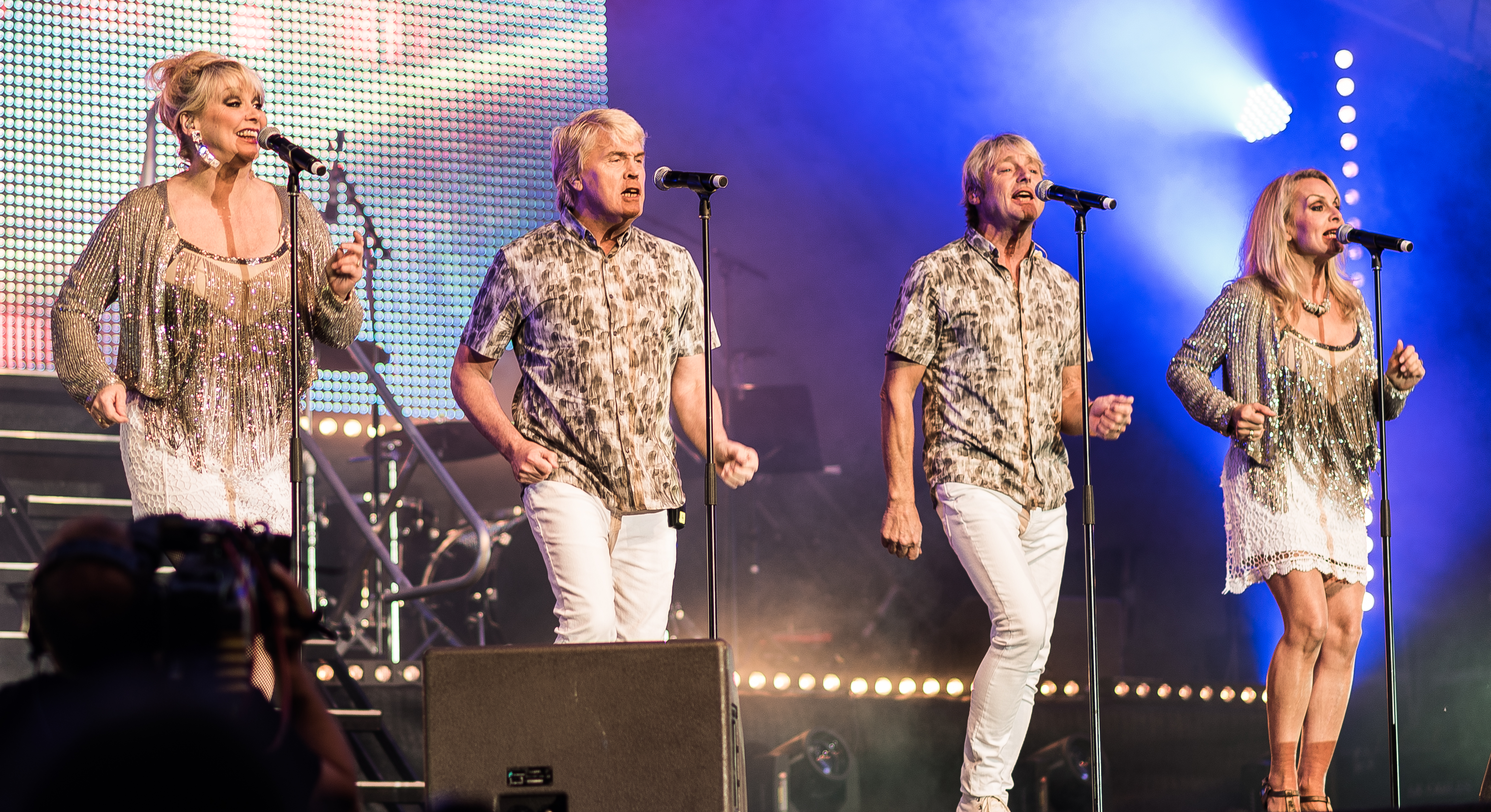 Bucks Fizz at Stockholm Pride 2015